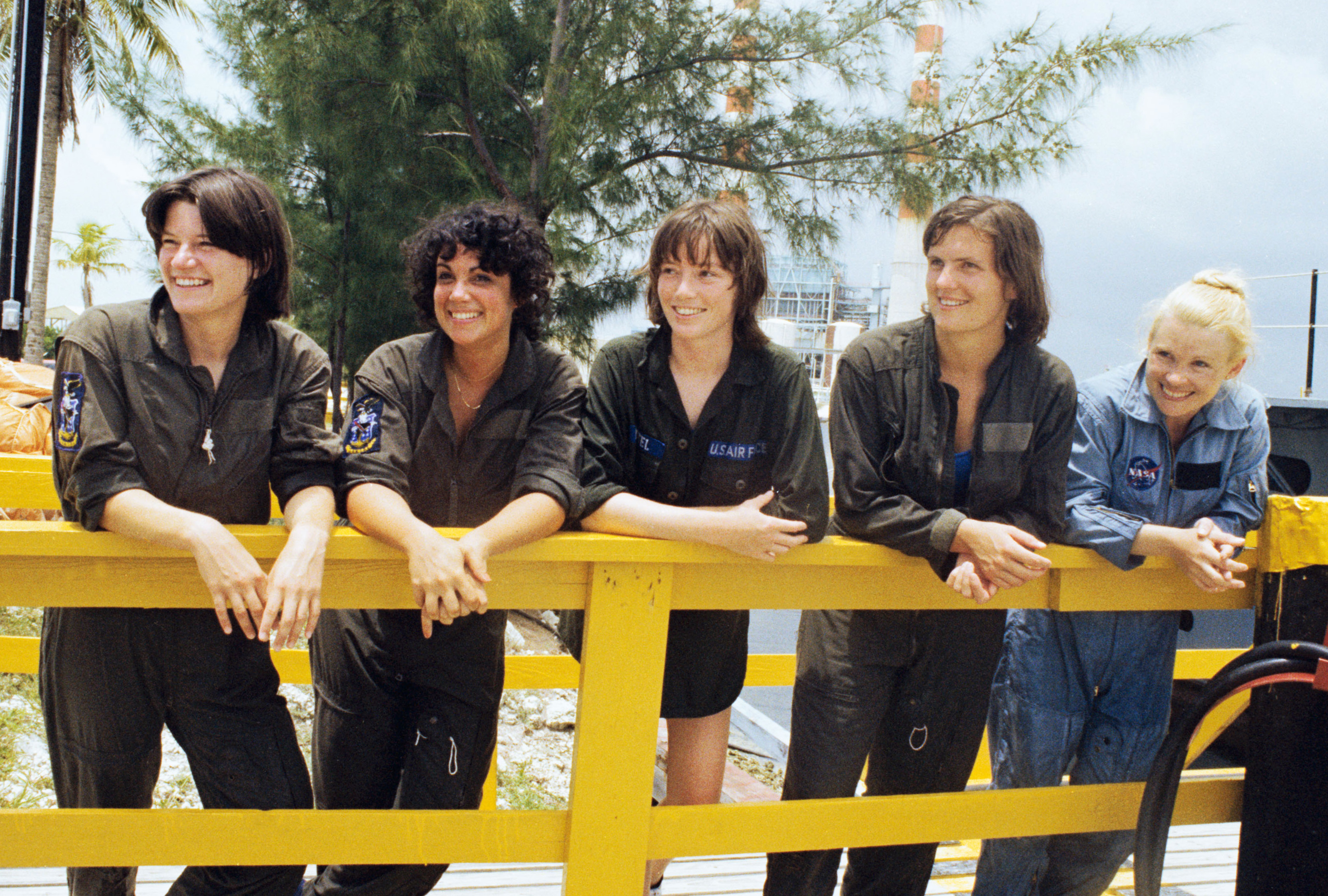 S78-33616 (31 July-2 Aug 1978) --- Taking a break from the various training exercises at a three-day water survival school held near Homestead Air Force Base, Florida are these five astronaut candidates left to right are Sally K. Ride, Judith A. Resnik, Anne L. Fisher, Kathryn D. Sullivan and Rhea Seddon. They were among fifteen mission specialist-astronaut candidates who joined one of the pilot astronaut candidates for the training.